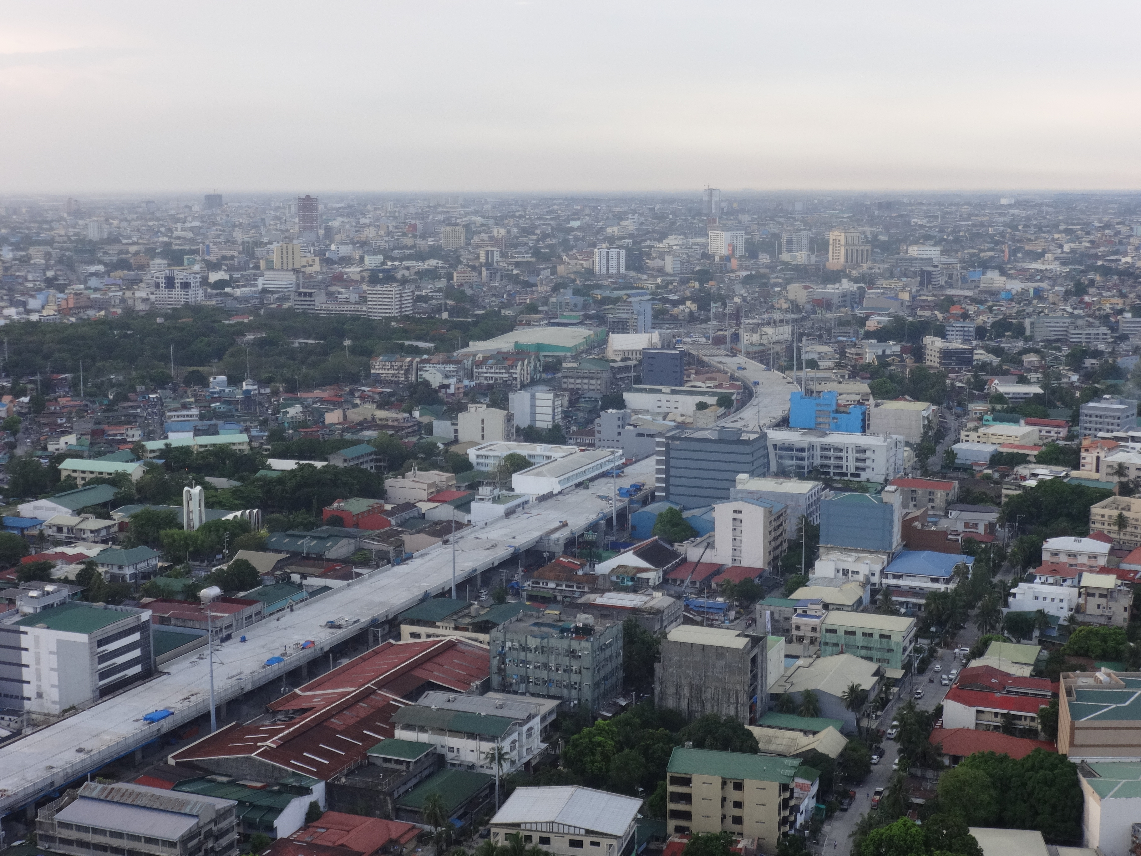 G. Araneta Avenue cor. E. Rodriguez, Skyway Stage 3 construction, sunset